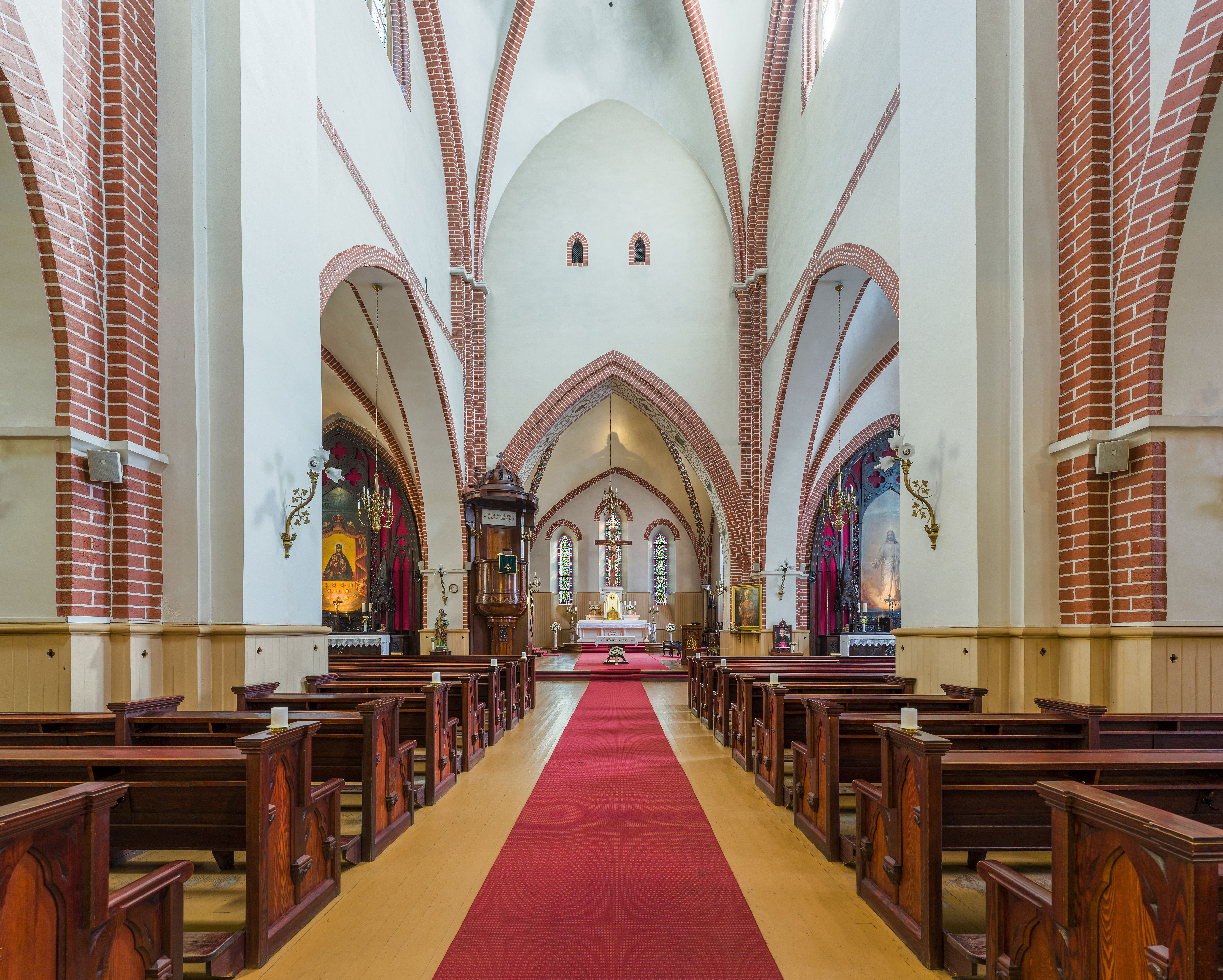 Interior of Cathedral of Saint James in Riga, Latvia.